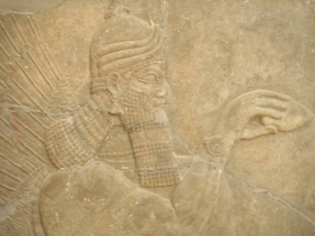 Relief slab from a wall. From the northwest palace of king Assurnasirpal II. Genie standing in front of a tree of life-(with spath, for pollinating). Assurnasirpal II period. 883-859 BCE. Kalhu (Nimrud). Marble Inv. No. 5.